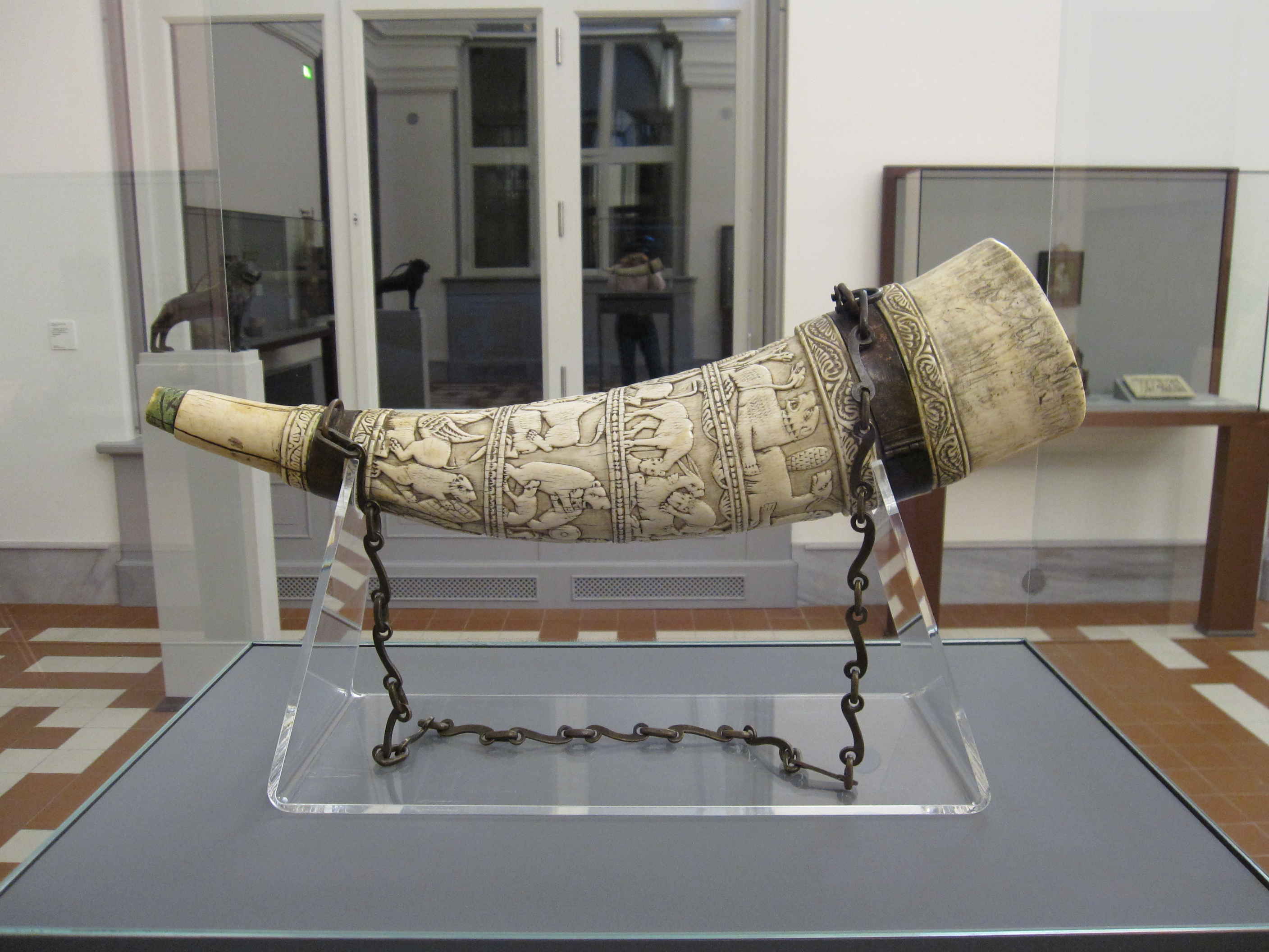 Olifant (Ivory horn for signalling